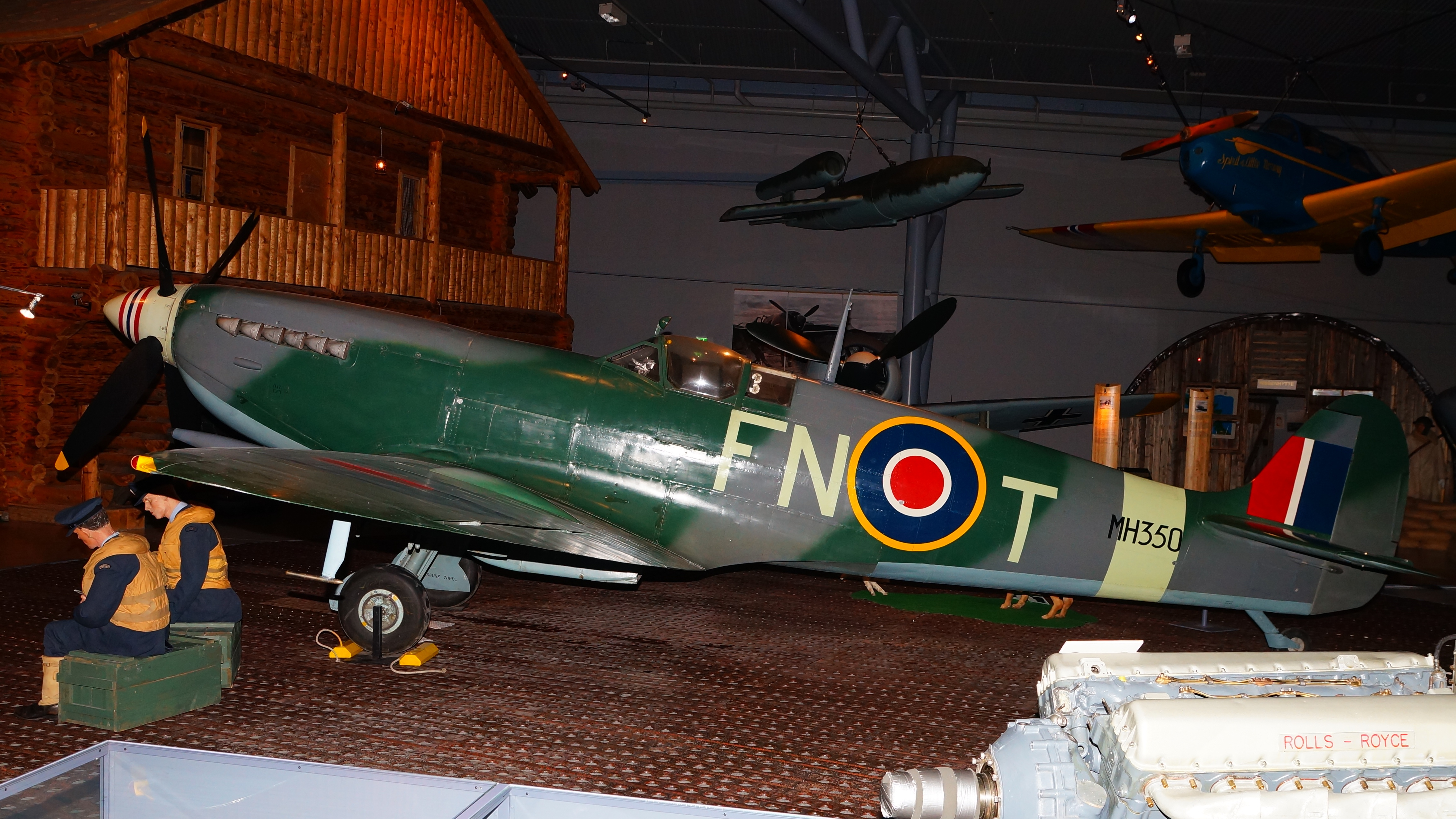 c/n CBAF.IX490. Built at Castle Bromwich Aircraft Factory and delivered to Royal Norwegian Air Force as BM-A on November 8th, 1945. Later, the marking changed to FN-M. When November 15, 1951, she flight last. Stored at Vaernes AB, from 1951 to 1961. Moved to Bodø AB in May 1961 and exhibited until 1982. From 1982 to 1995, she was at Akershus Fortress, oslo. From 1996, she is displayed at Norwegian Aviation Museum, Bodø, Norway. 19th May 2014